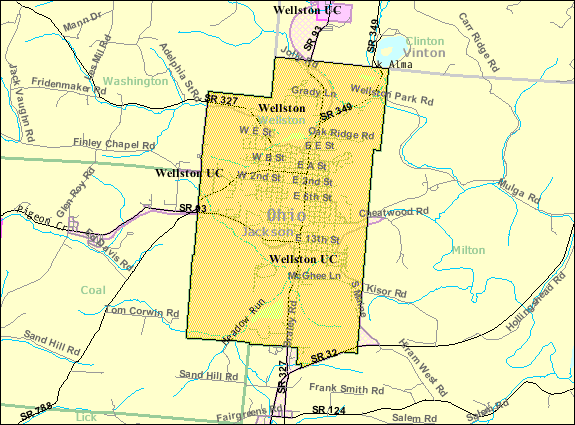 Map of Wellston, a city in Jackson County, Ohio, United States, with its boundaries at the time of the 2000 census.